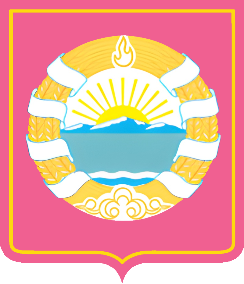 Aghin Buriatia (Aghin Buryatia), coat of arms